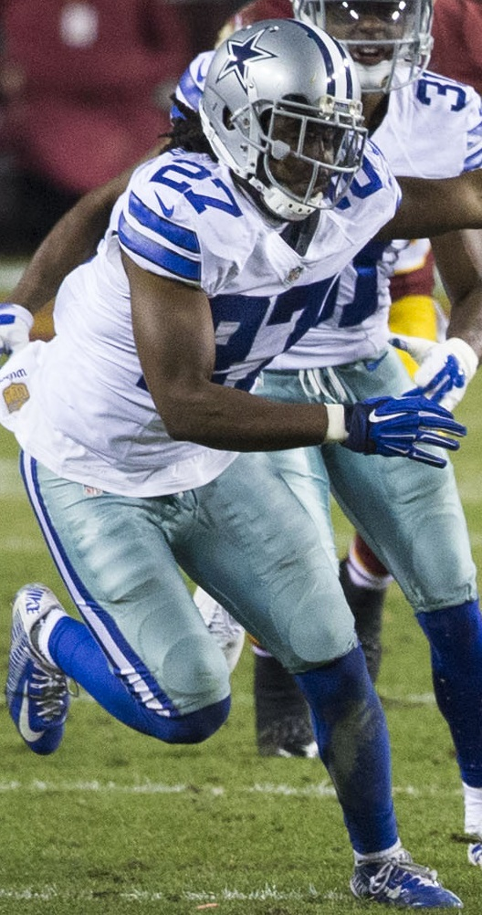 Cowboys at Redskins 12/7/15